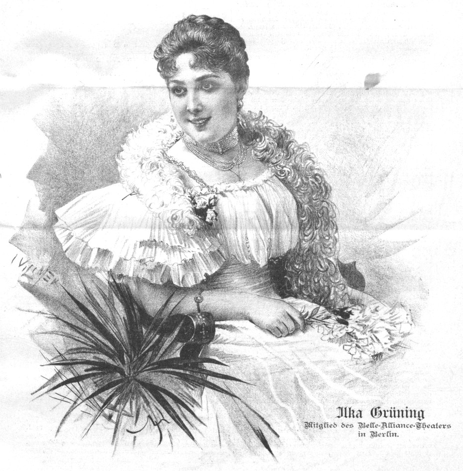 Portrait of Ilka Grüning (1876-1964), Austrian-American actress.